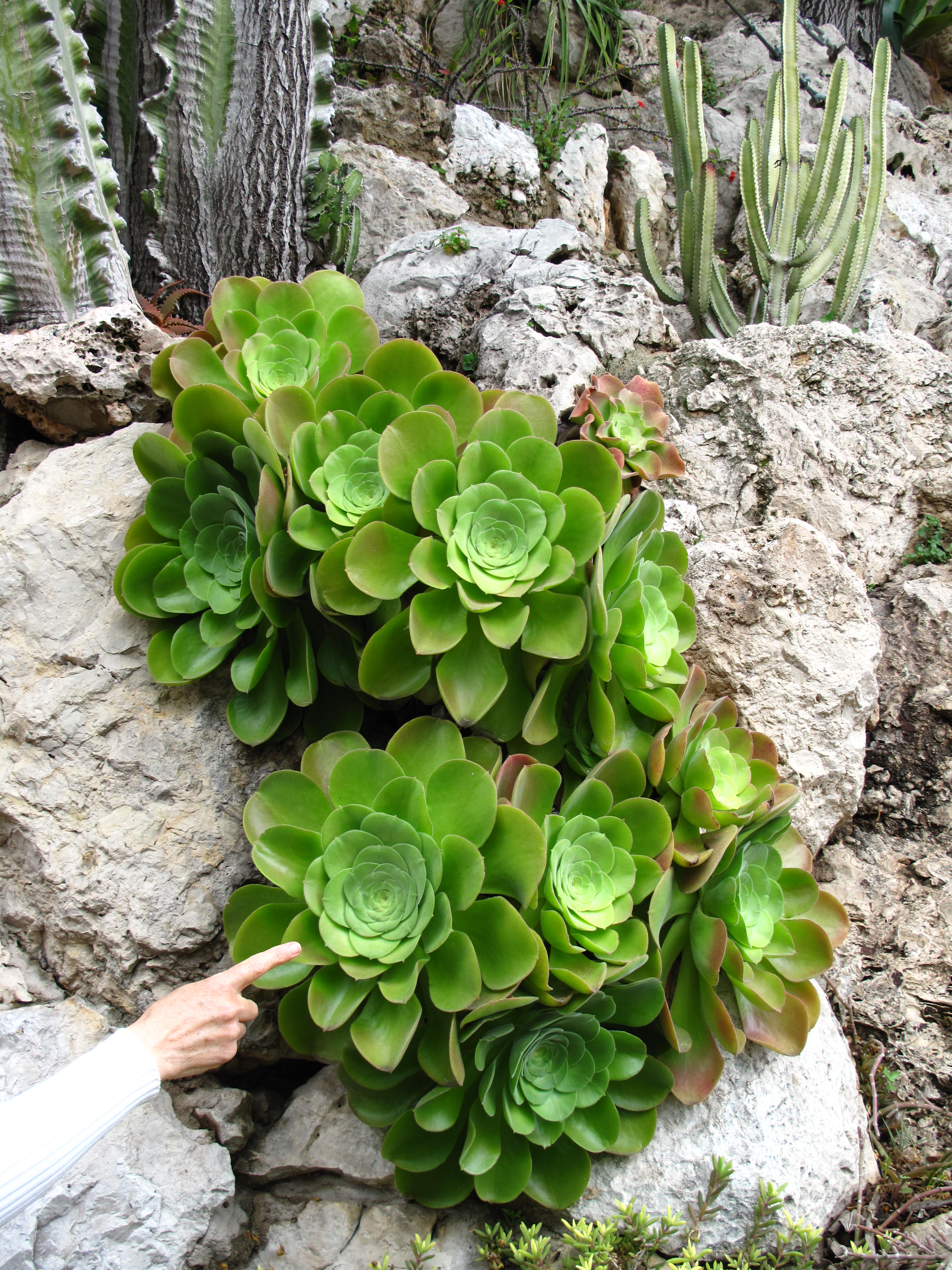 Aeonium canariense in exotic garden of Monaco